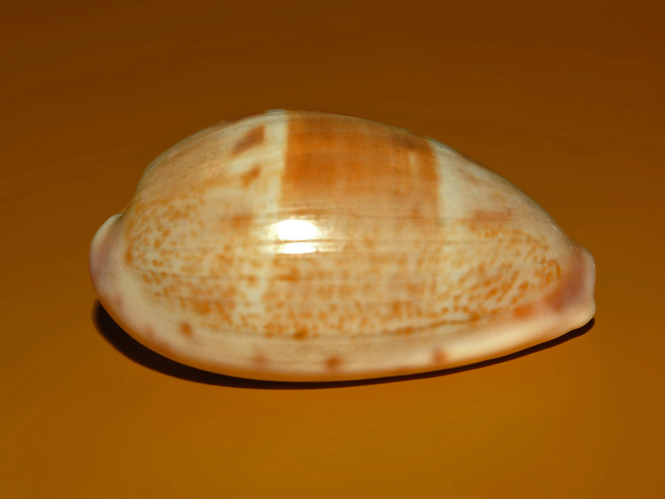 Contradusta walkeri - Philippines